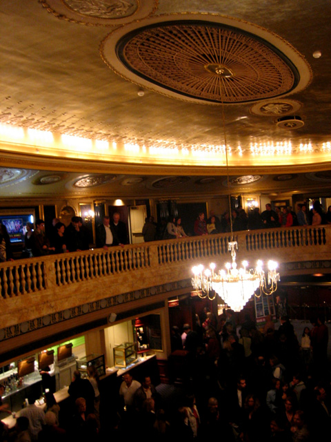 Inside the Canon Theatre, Toronto, Canada